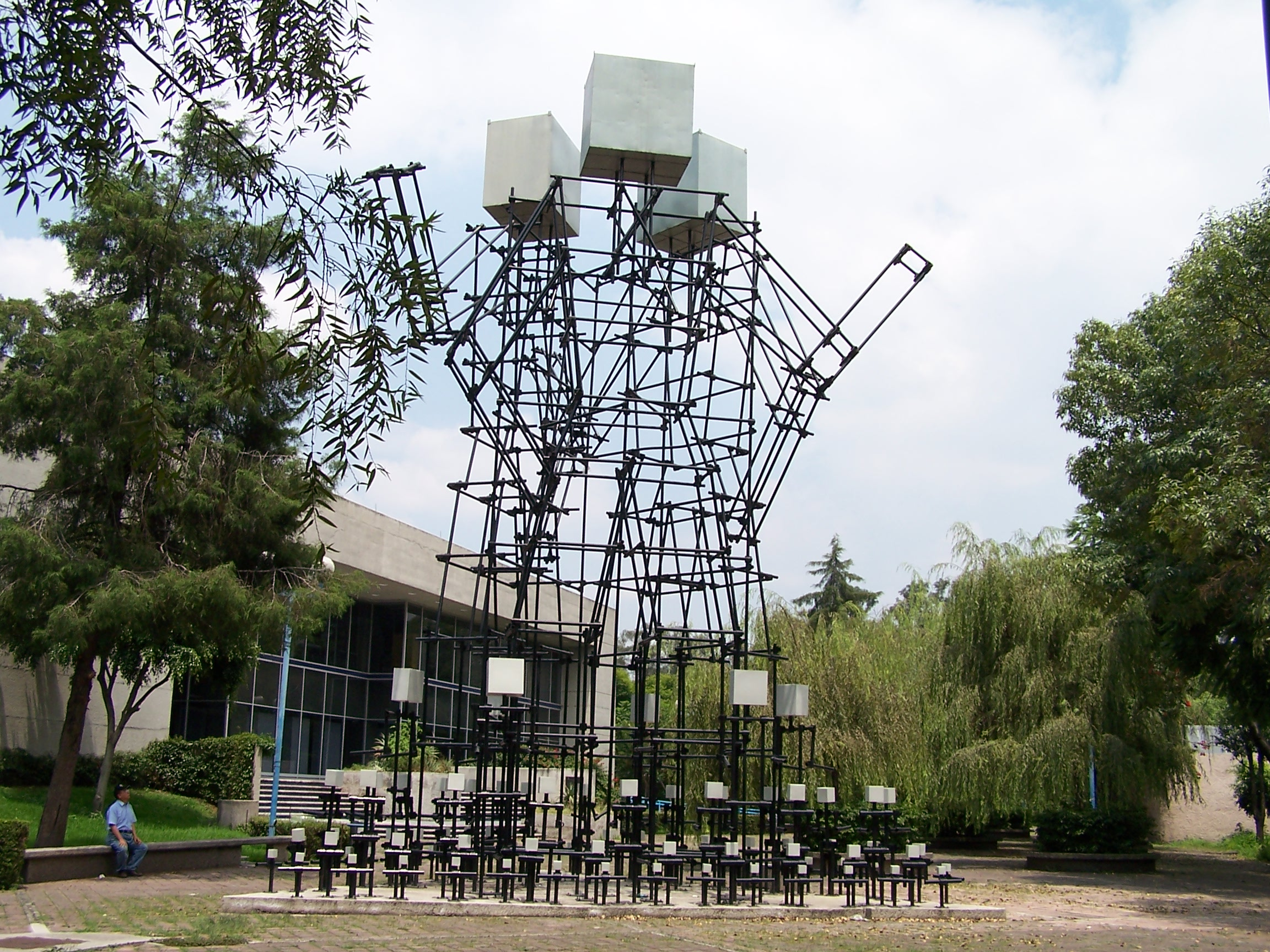 La distribución del ingreso en México by Katya Mandoki